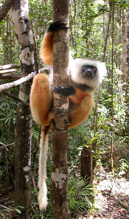 Diademed Sifaka (Propithecus diadema)